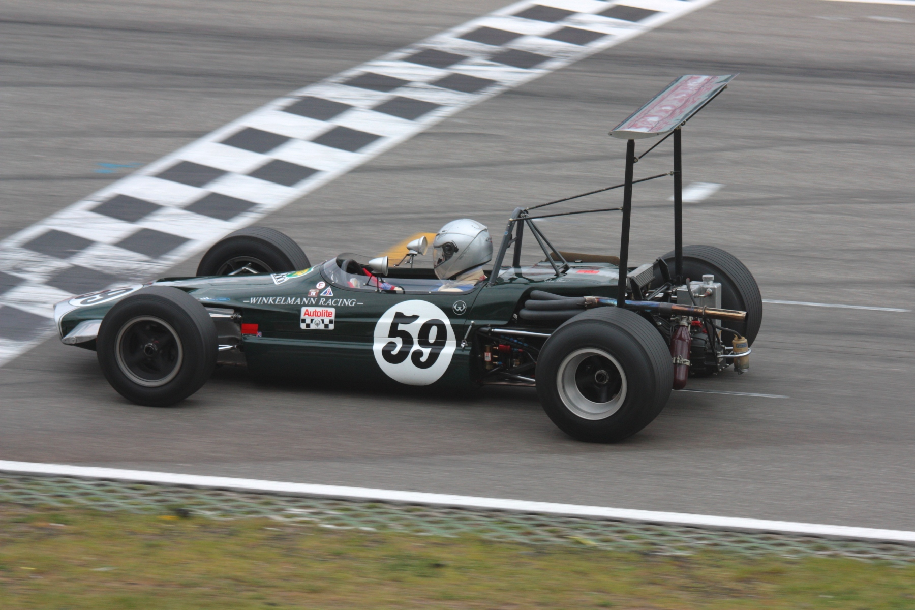 Bruce Bammer driving a Lotus 59 at the Hockenheim Historic presentation RaceHistoryOnTrack 2011.